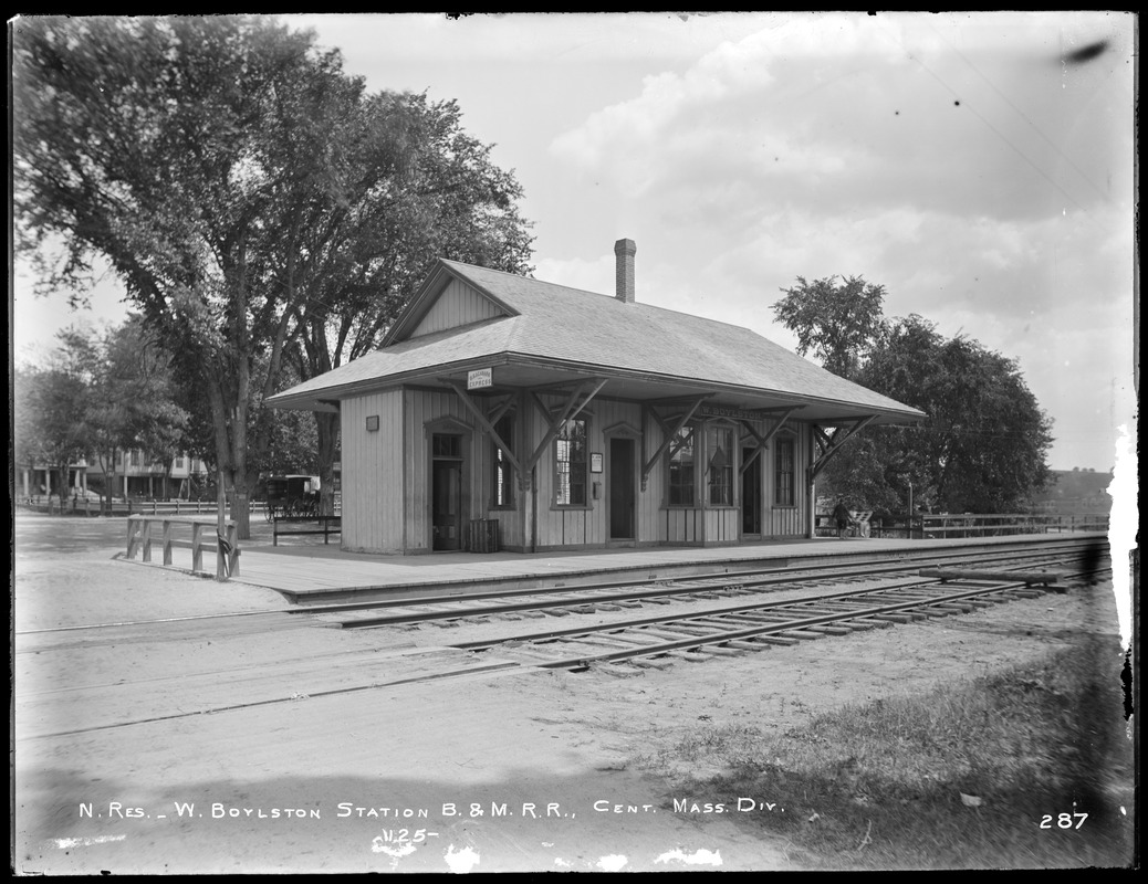 West Boylston Station, Boston & Maine Railroad, Central Massachusetts Division, from the south, West Boylston, MA,, Jul. 11, 1896